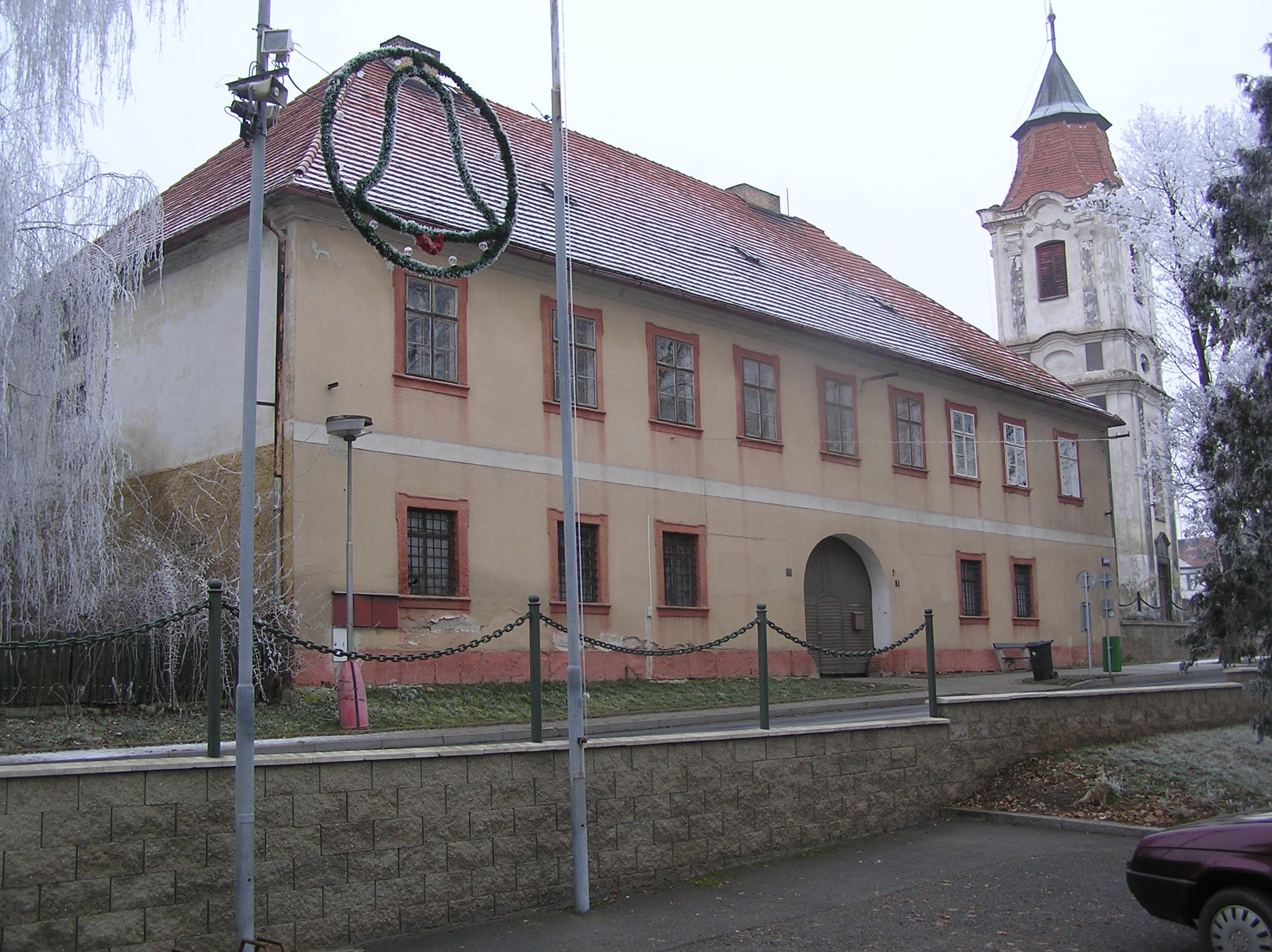 Parsonage in Blšany